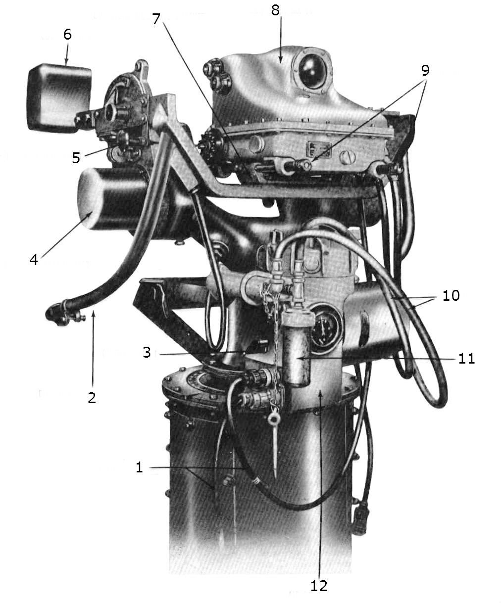 Mk51 Director. Cropped portion of image scanned from source.